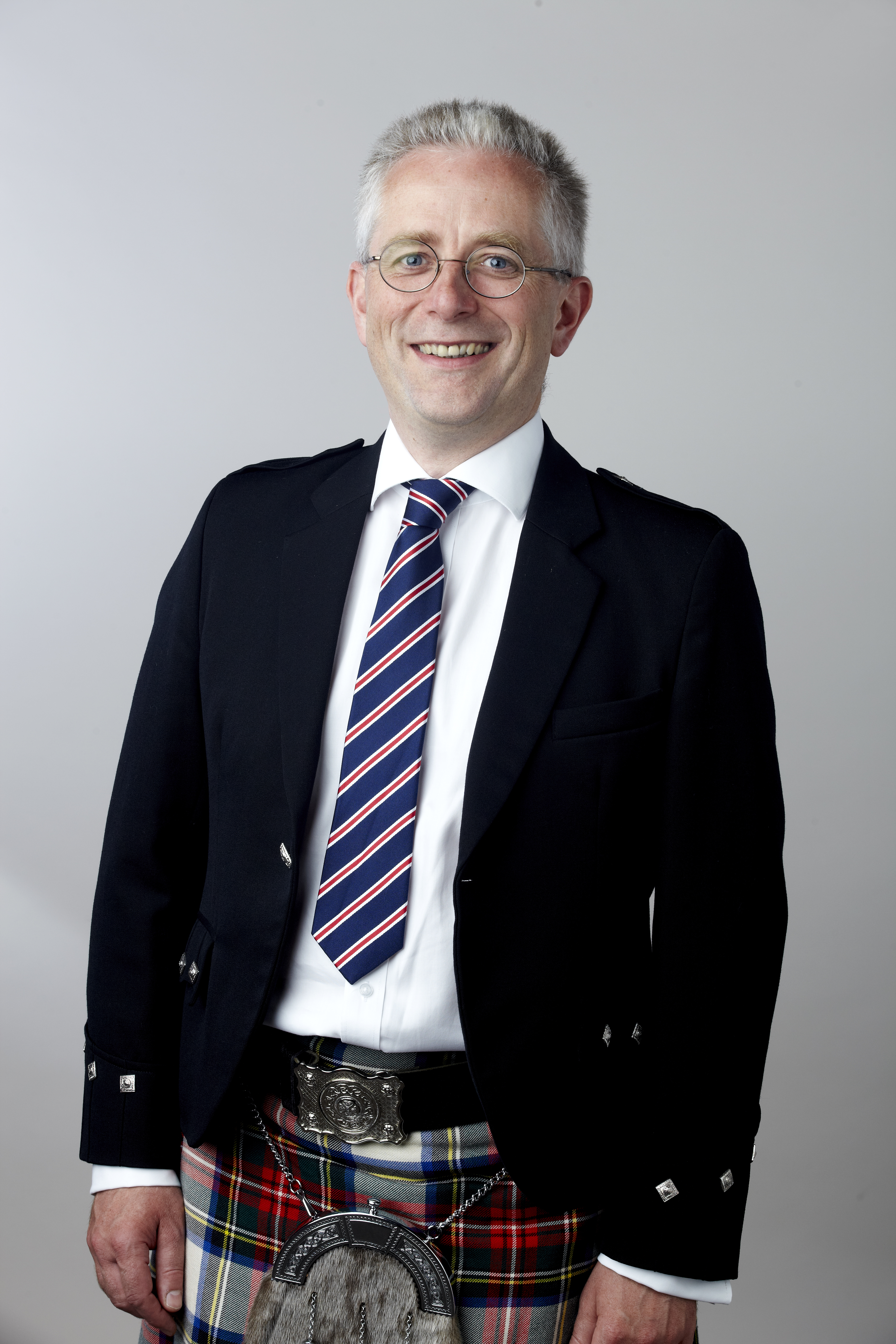 Professor James Naismith FMedSci FRS, Royal Society Fellow elected 2014 Attribution: The Royal Society